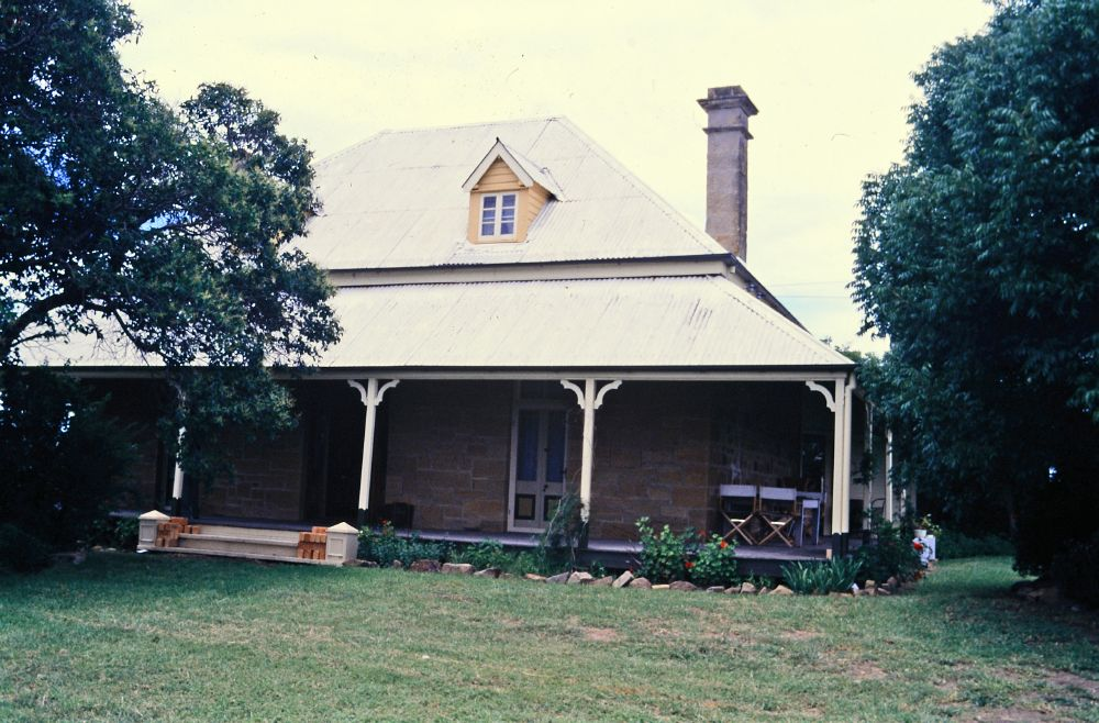 White Swan Inn (former), front elevation (1996)